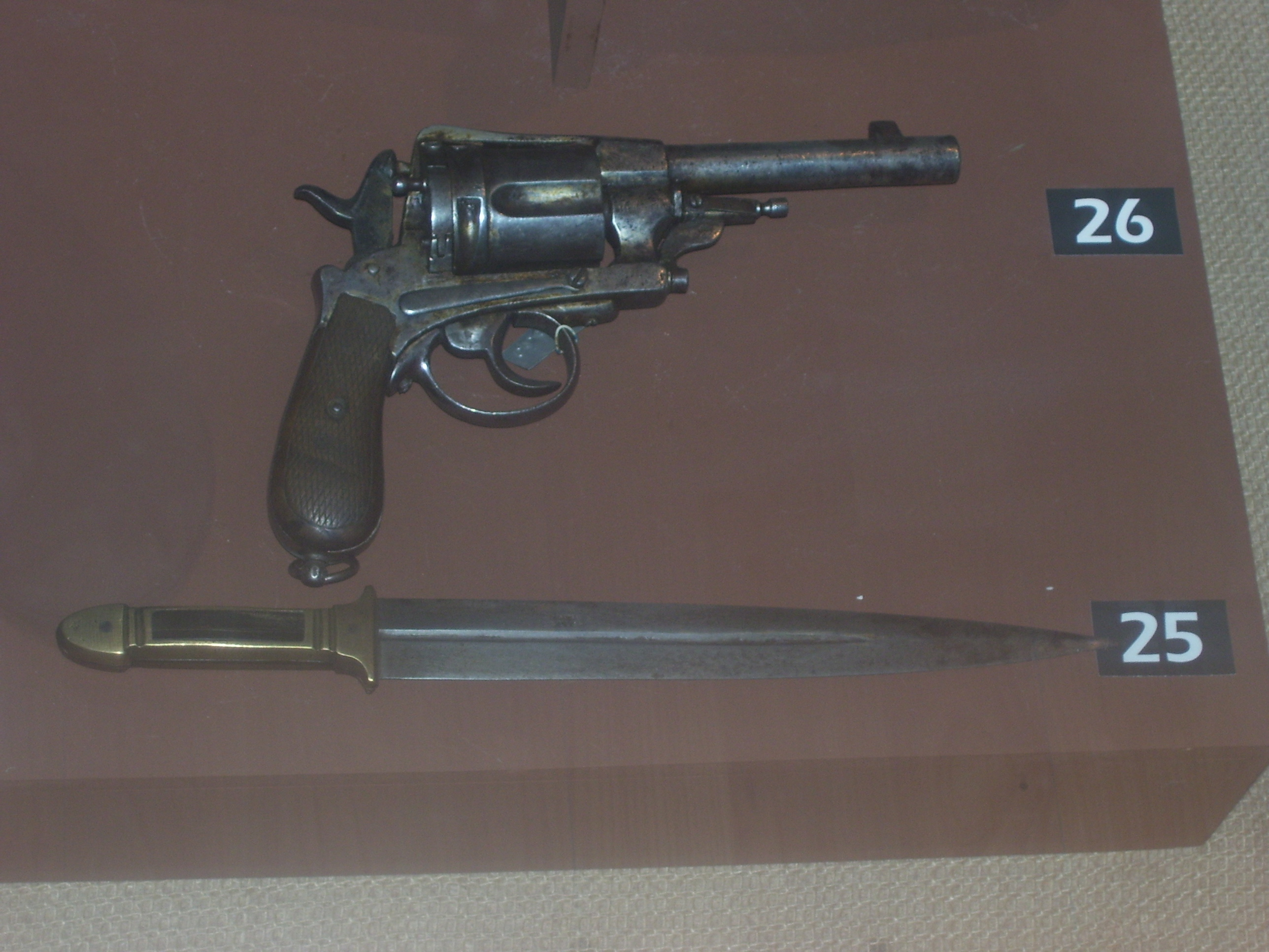 Toma Davidov's dagger